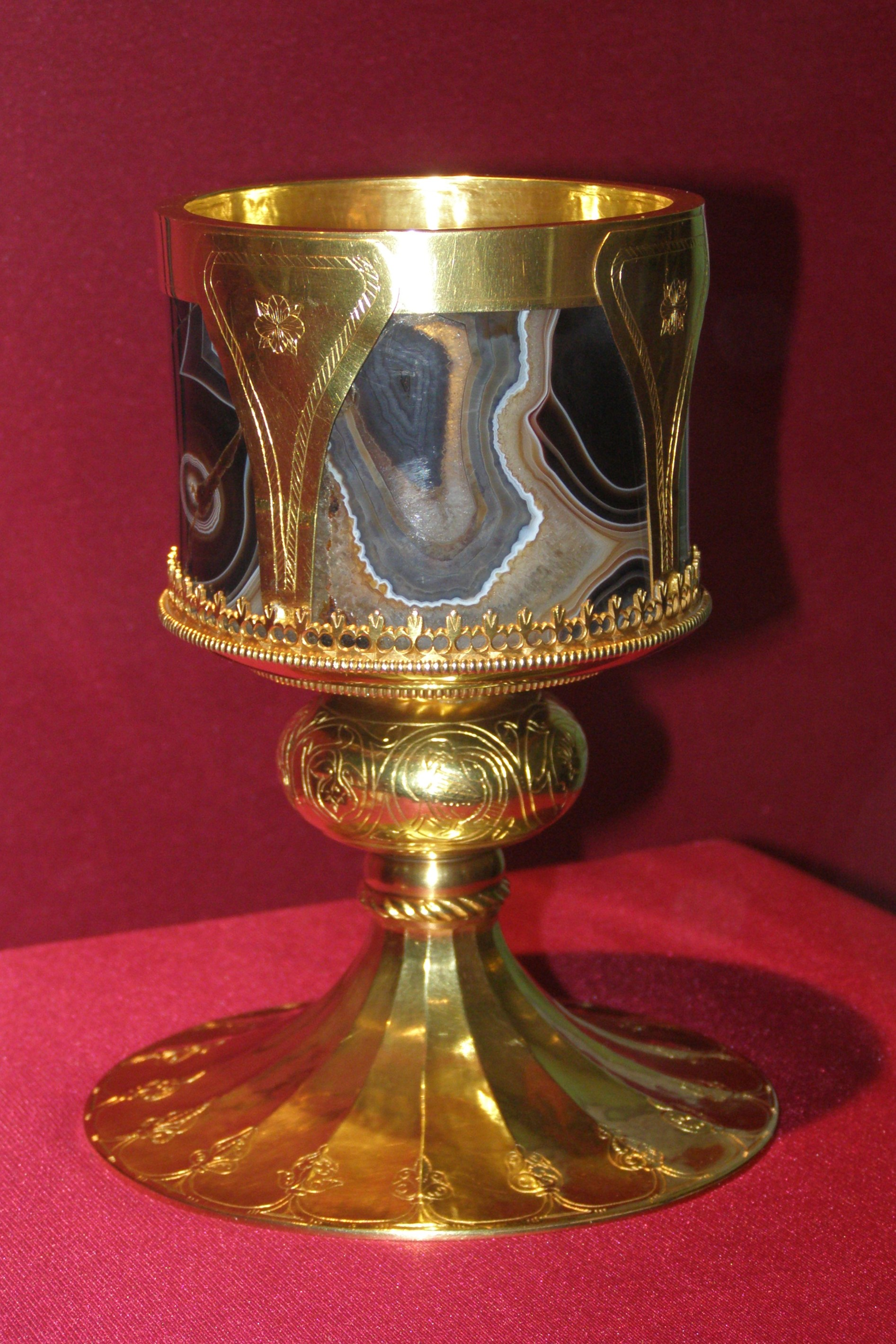 Chalice of St. Adalbert.